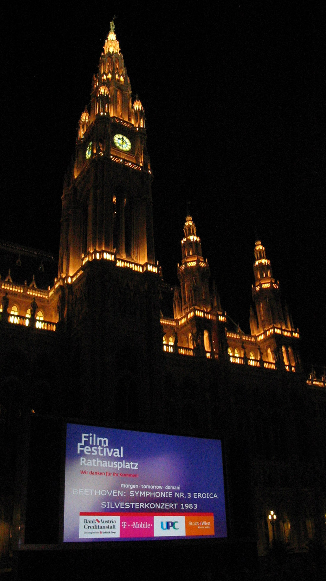 Vienna Rathaus after evening event, summer 2007 (stiched image)